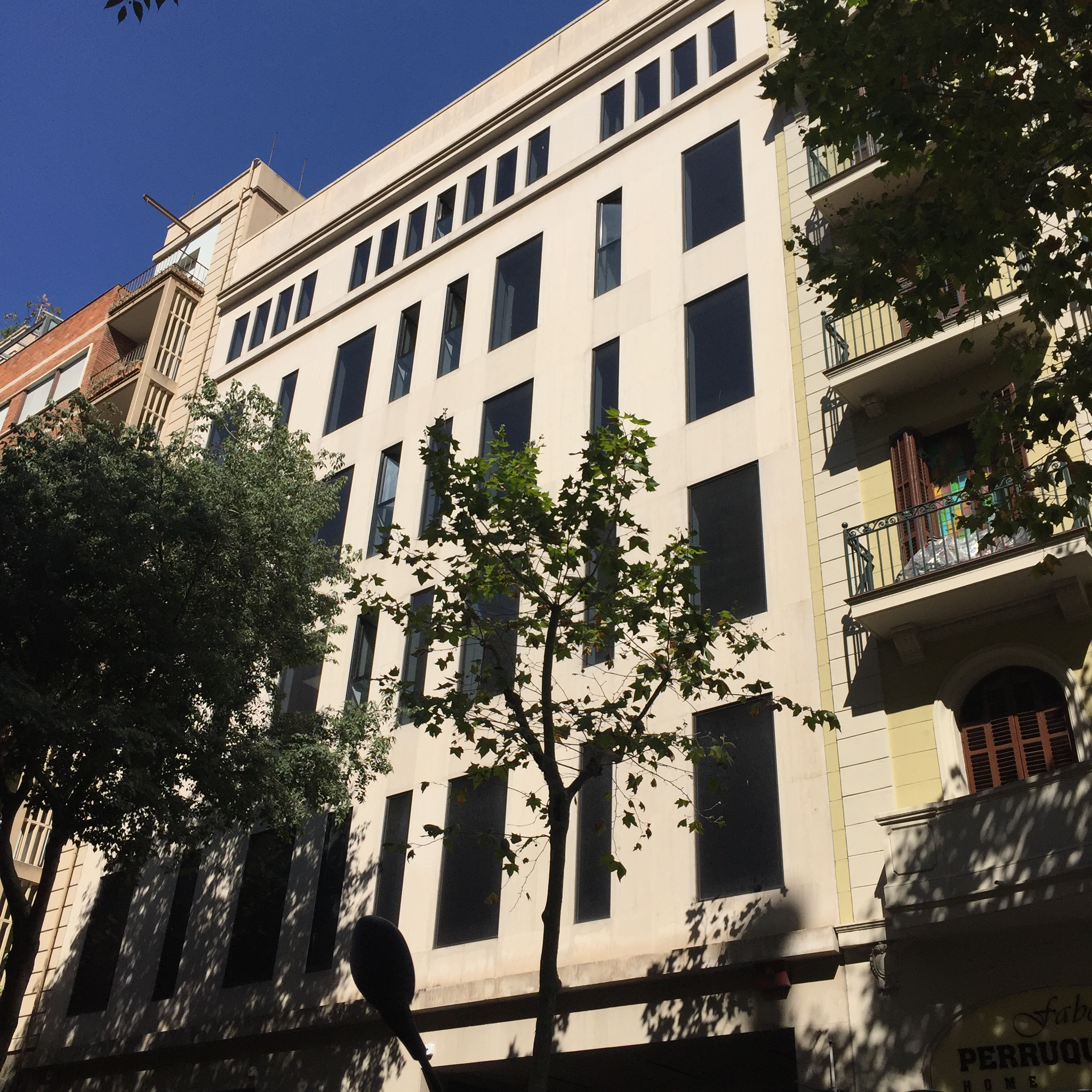 Catalan European Democratic Party (PDECAT) headquartes in Provenza street, Barcelona.